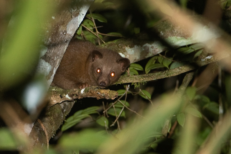 Golden palm civet, Paradoxurus zeylonensis photographed at Sinharaja in Sri lanka.